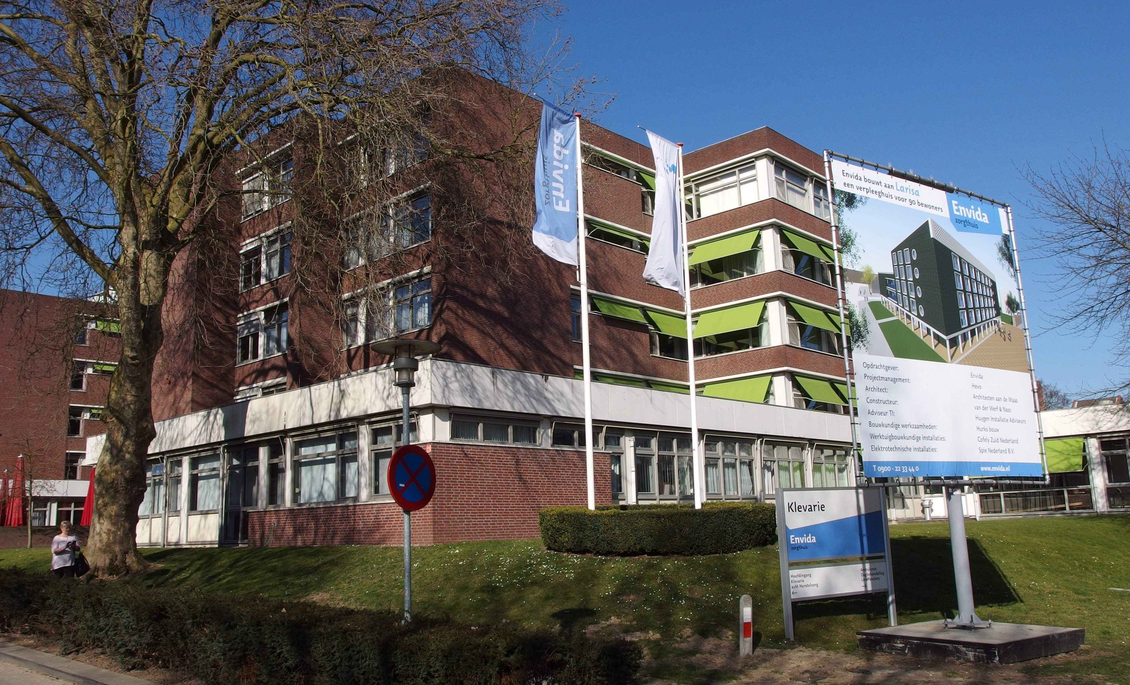 2015-03-12 in Maastricht; at terrain of Calvariënberg Monastery.